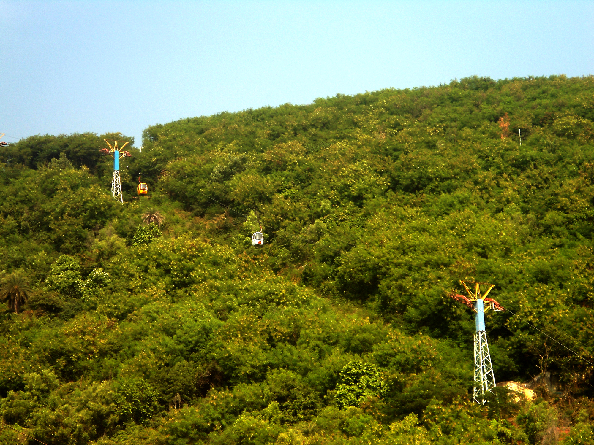 Rope way at Kailasagiri in Visakhapatnam